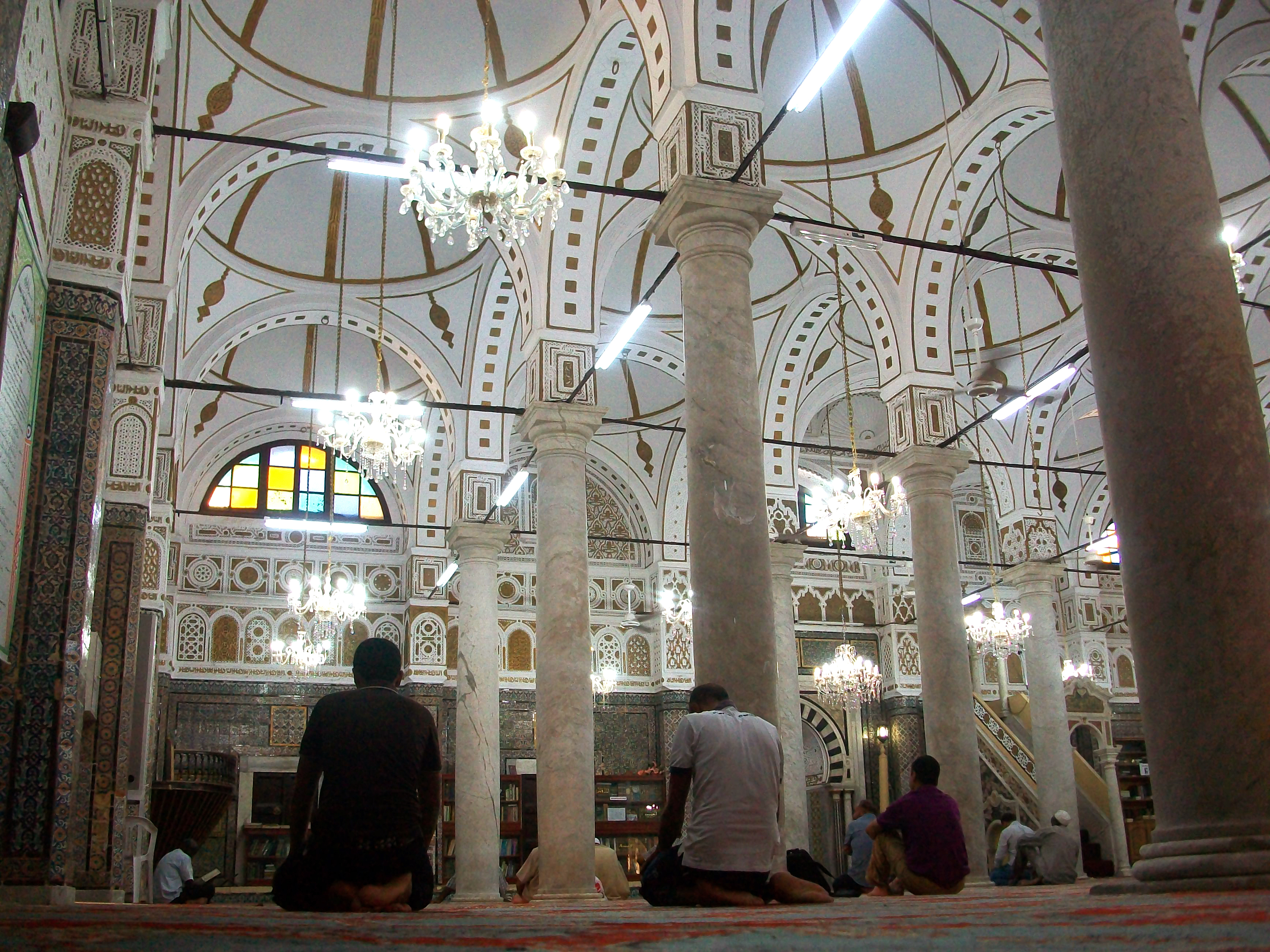 Interior of the Ahmed Pasha Karamanli Mosque in the medina of Libya's capital Tripoli.